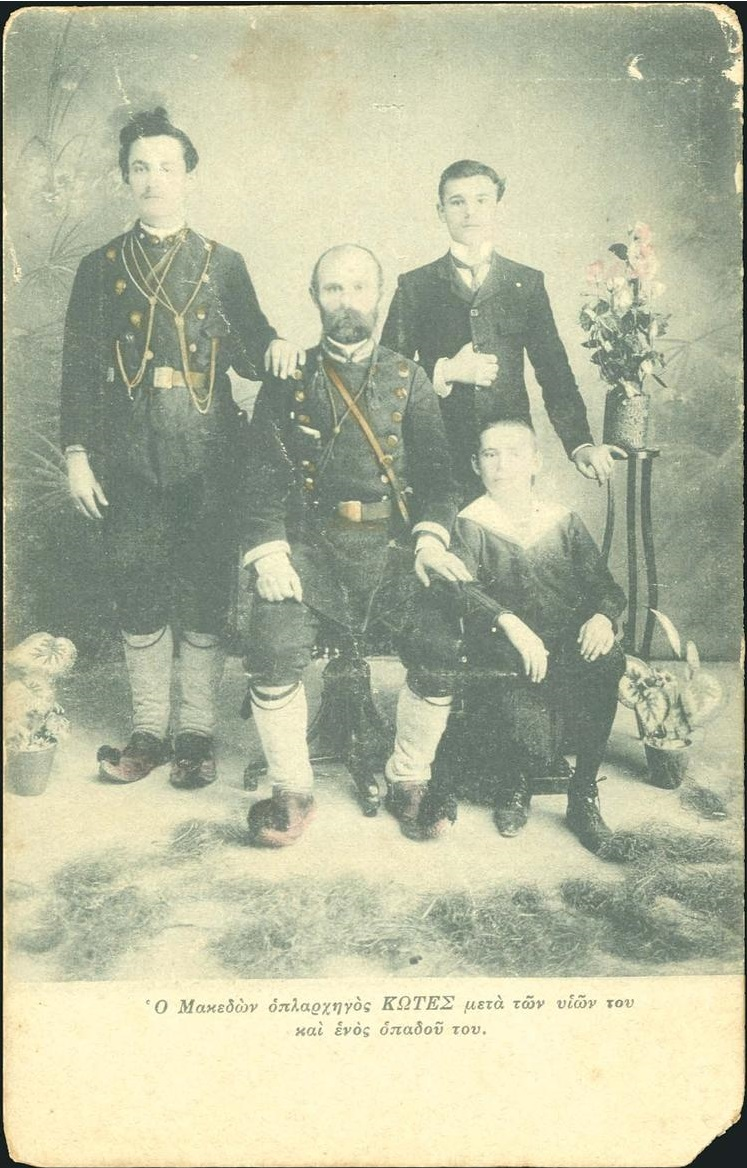 The caption reads:Macedonian chieftain Kotes with his sons and a supporter. Kottas's sons, Dimitrios and Sotirios, are on his left side and his adjutant, Simos Stoiannis, is standing on his right.